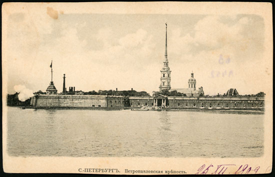 Saint Petersburg (Russia), Peter and Paul Fortress.